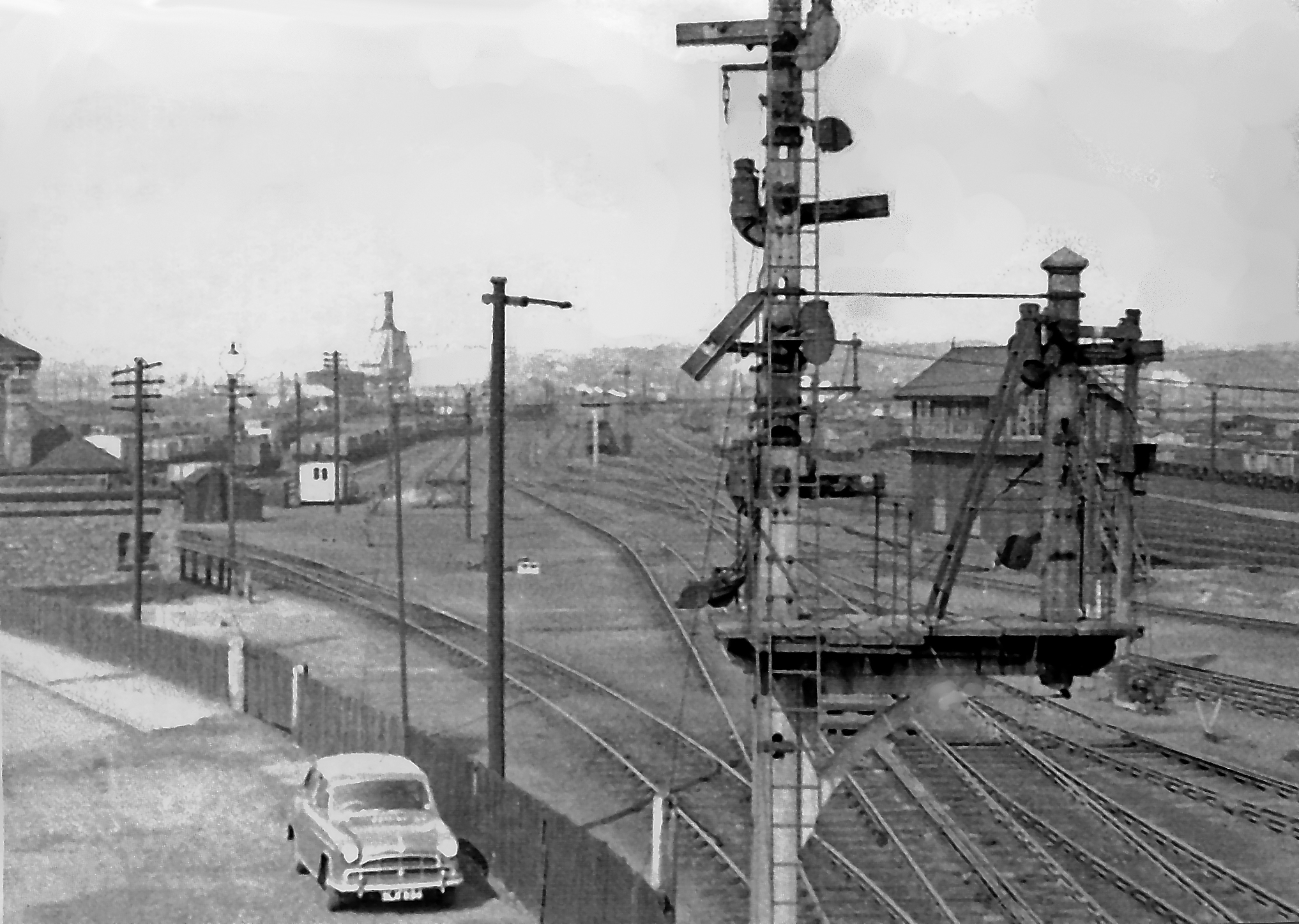 Colwick Yard Complex. View [probably] WNW, to the western part of the vast ex-LNER Colwick Yards and towards Gedling etc. on the Nottingham Avoiding Line. The signalbox is [probably] Locomotive Junction, the great Locomotive Depot, with an allocation of over 200 engines is off to the left. [It was a very difficult complex to access from public roads. My car is in the foreground, and how I got up so high is a mystery to me. Better elucidation by someone else would be welcome]. Fifty years ago, this was a very major railway centre, dealing with an immense freight traffic, especially coal, but all has long since gone in the modern age.